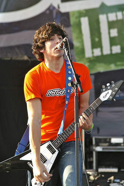 Eleventyseven lead singer Matt Langston live at ShoutFest '07.